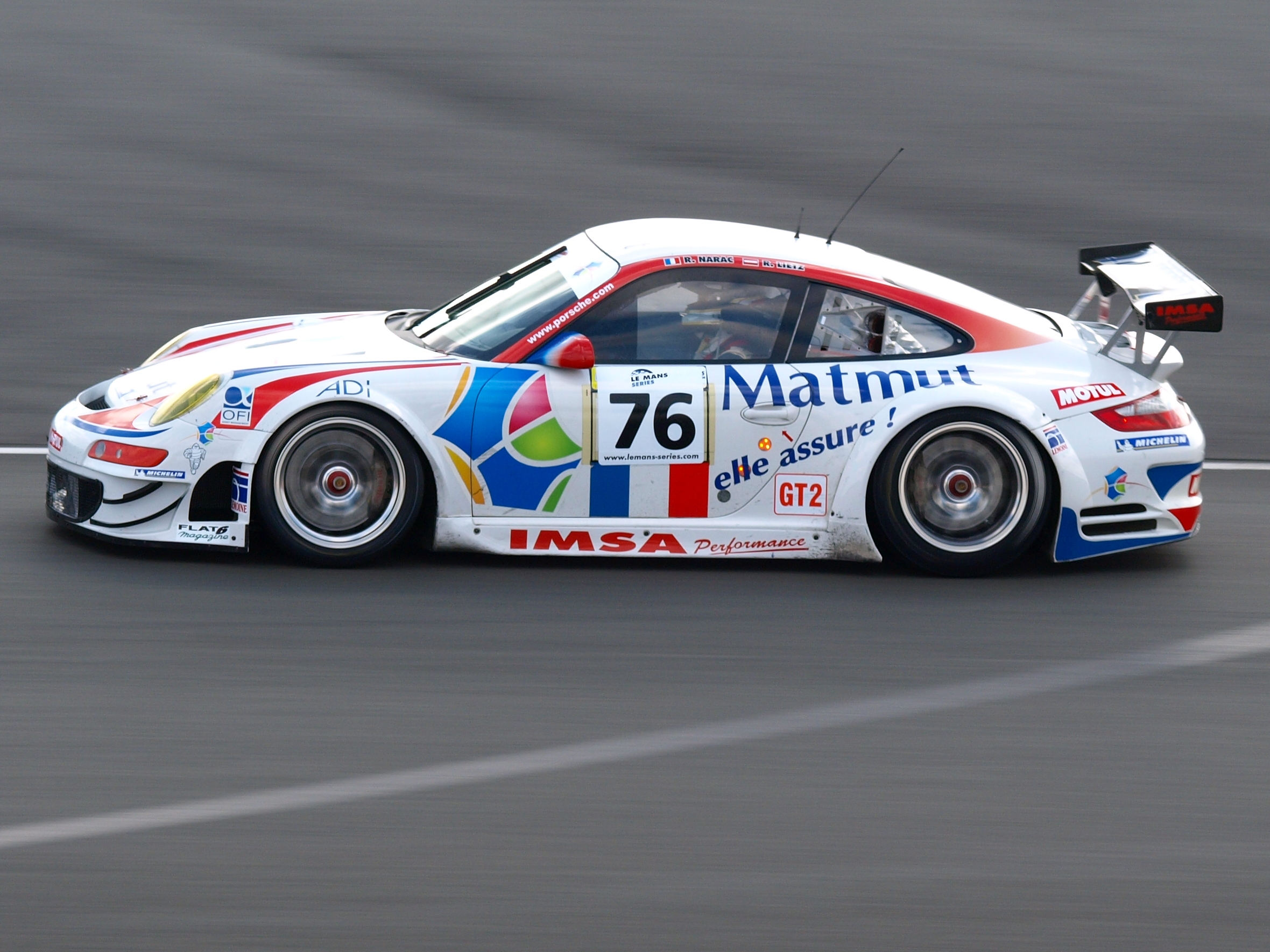 Richard Lietz driving IMSA Performance Matmut's Porsche 997 GT3-RSR at the 2008 1000km of Silverstone.